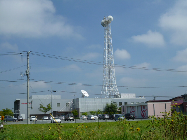 A building of the headquarter of Sakuranbo Television Broadcasting Corporation in Yamagata city.